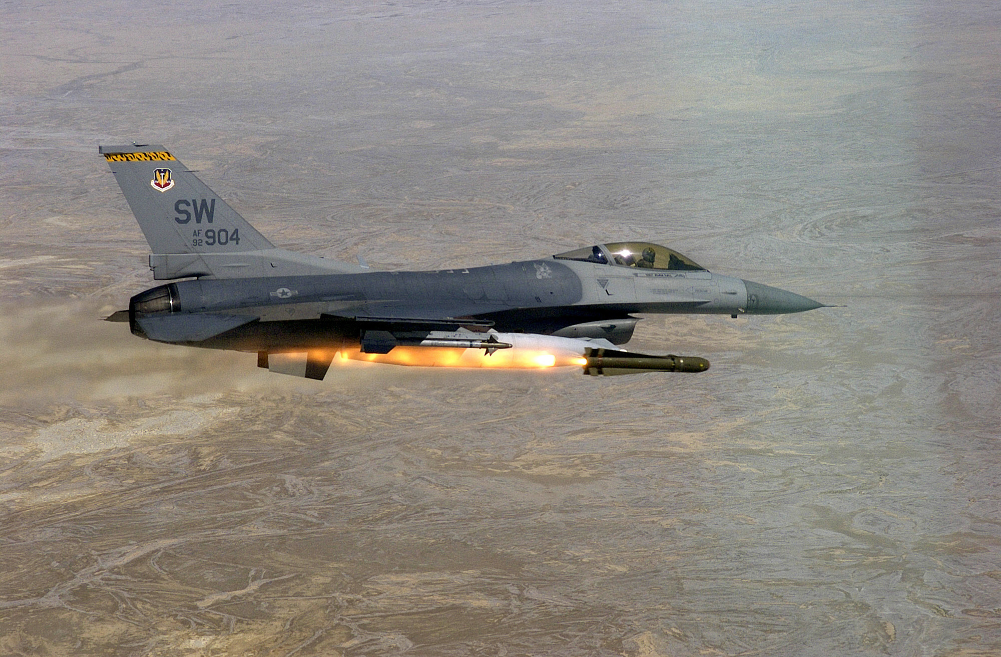 F-16CJ of the USAF firing an AGM-65D over the Utah Test and Training Range during Exercise Combat Hammer.